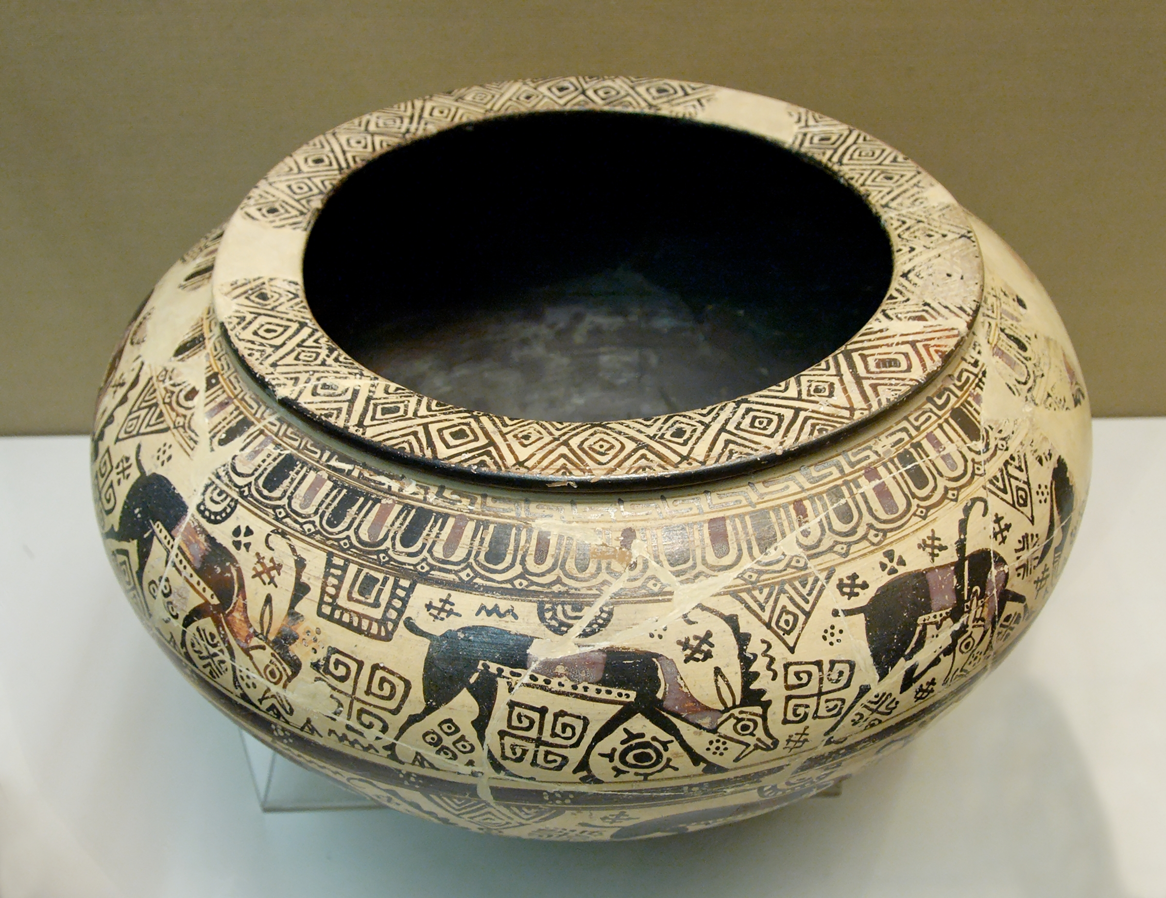 Dinos with friezes of grazing wild goats. Terra cotta, Rhodes, ca. 625–600 BC.